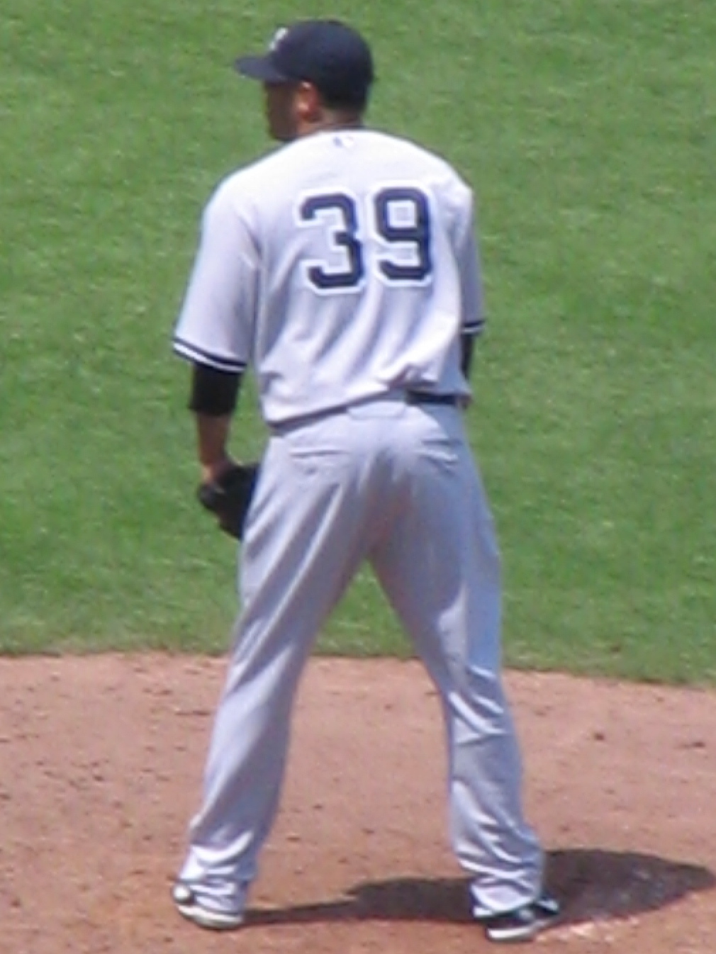 Shawn Chacon of the New York Yankees on the mound at RFK Stadium during a game against the Washington Nationals in 2006